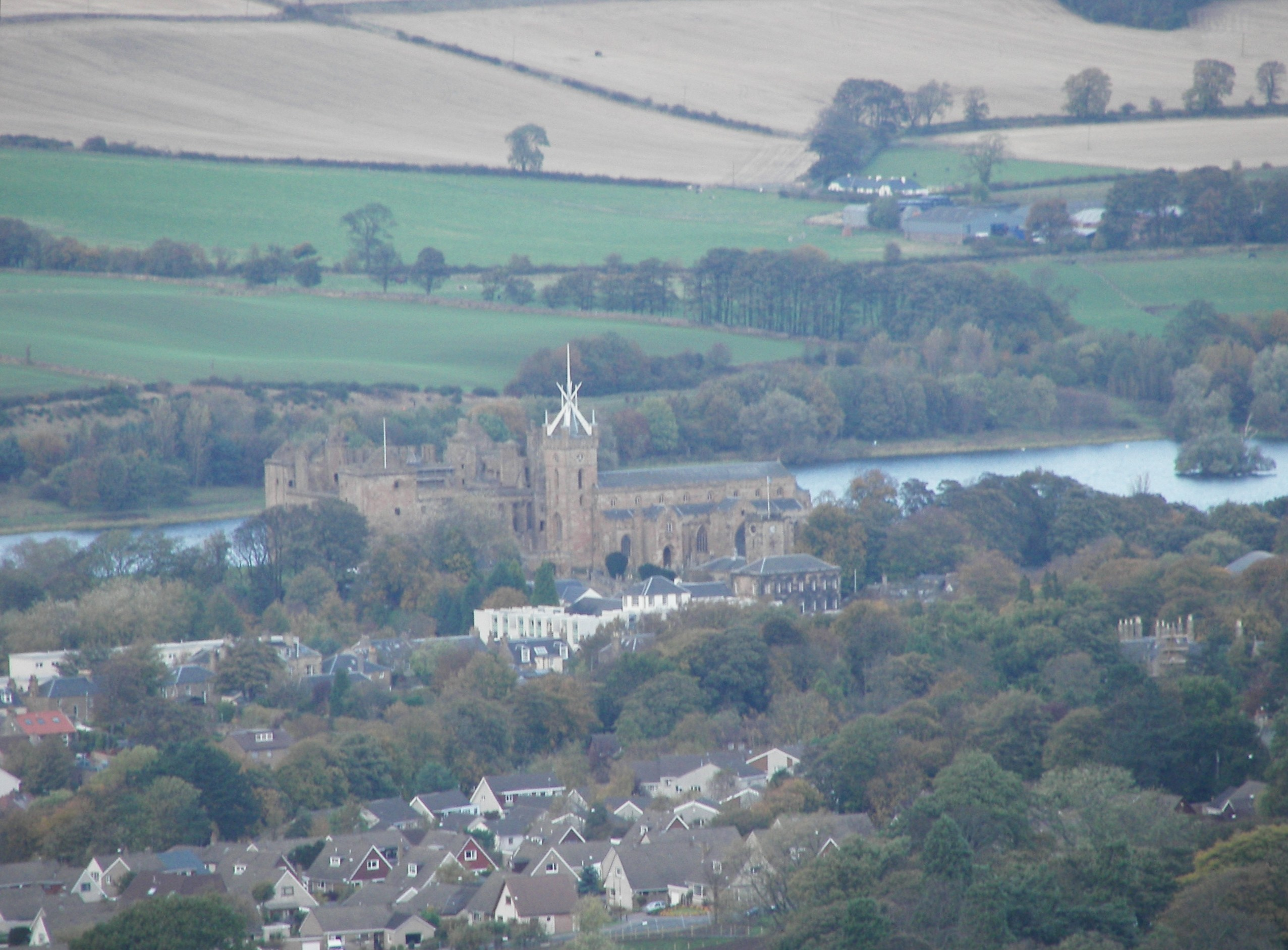 Linlithgow Palace and surrounding area. Photo taken from Cockleroy Hill (near/in Beecraigs Country Park).